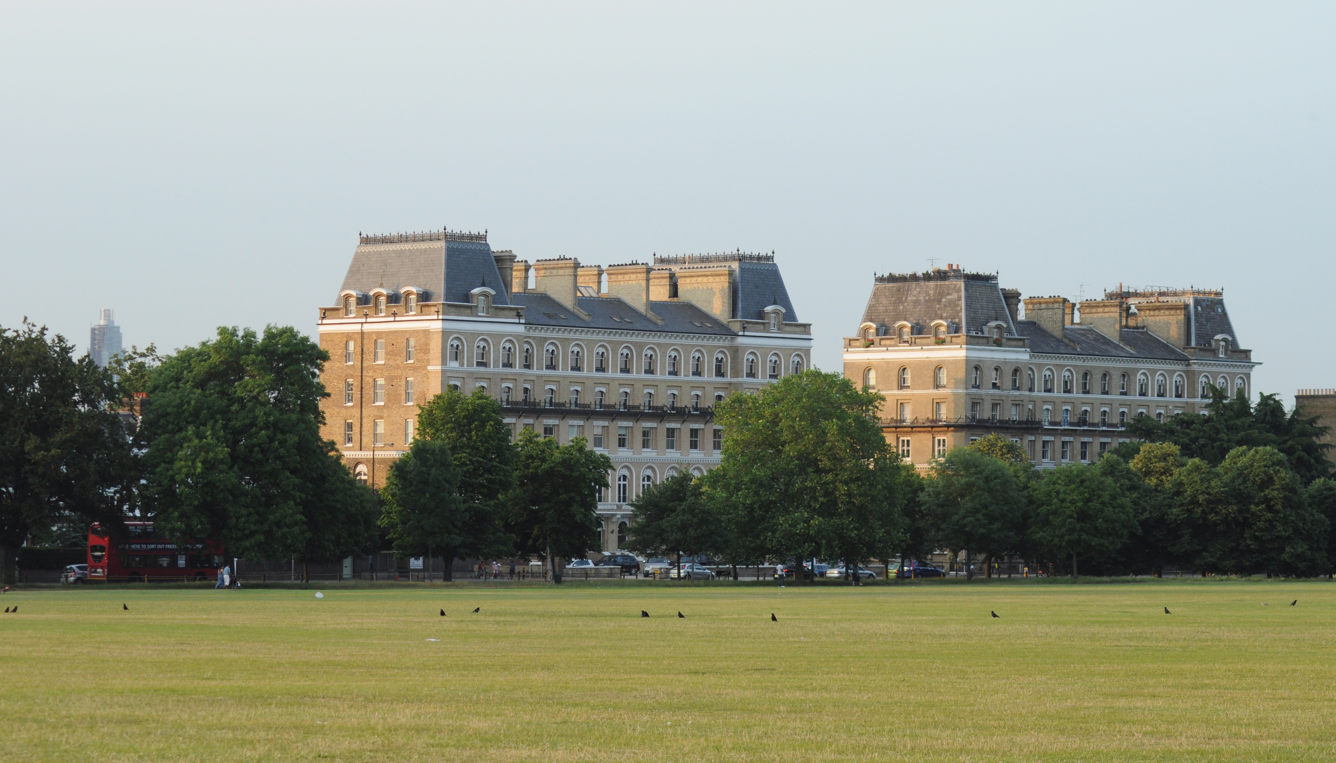 43-47, Clapham Common North Side Sw4 Wikidata has entry Q26479493 with data related to this item. 48-52, Clapham Common North Side Sw4 Wikidata has entry Q26355336 with data related to this item.